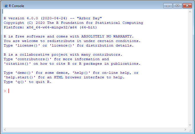 R terminal